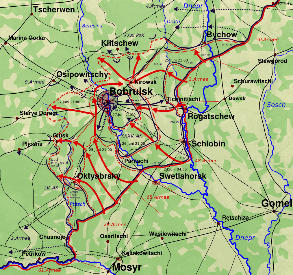 Development of the bobruisk operation during soviet offensive operation bagration from june 24, 1944, 0400 AM to june 27, 1944, 0900 PM